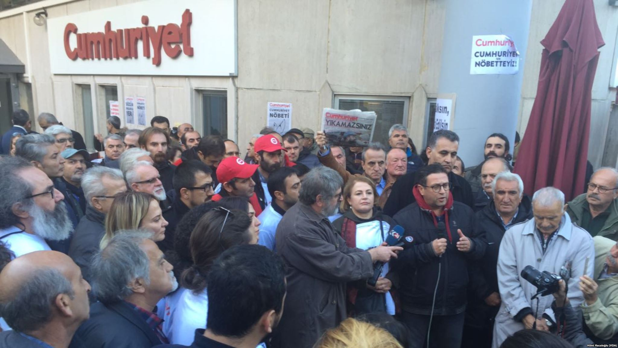 People protesting imprisonment of journalists from Cumhuriyet in Şişli, İstanbul.